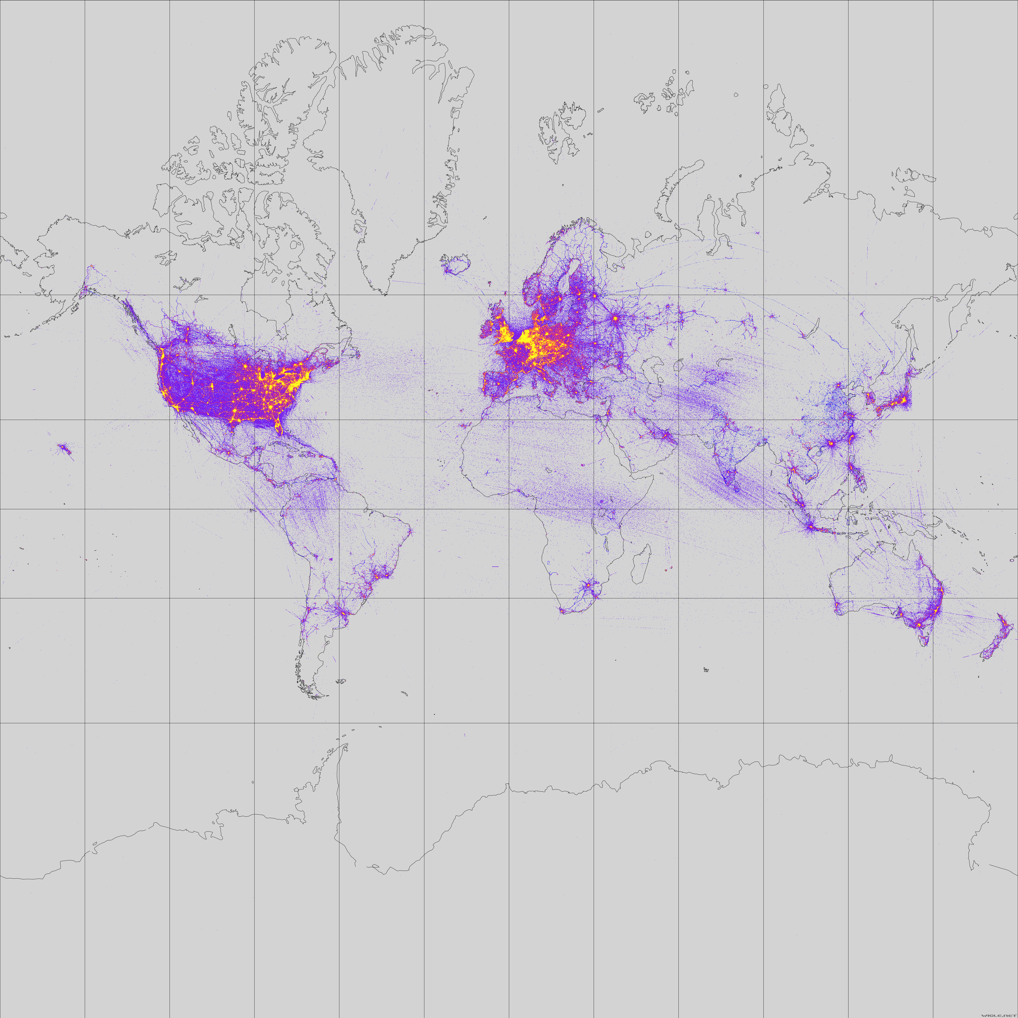 A plot of signal-strength weighted trilaterated centroids for unique WiFi and cellular networks in the wireless database.